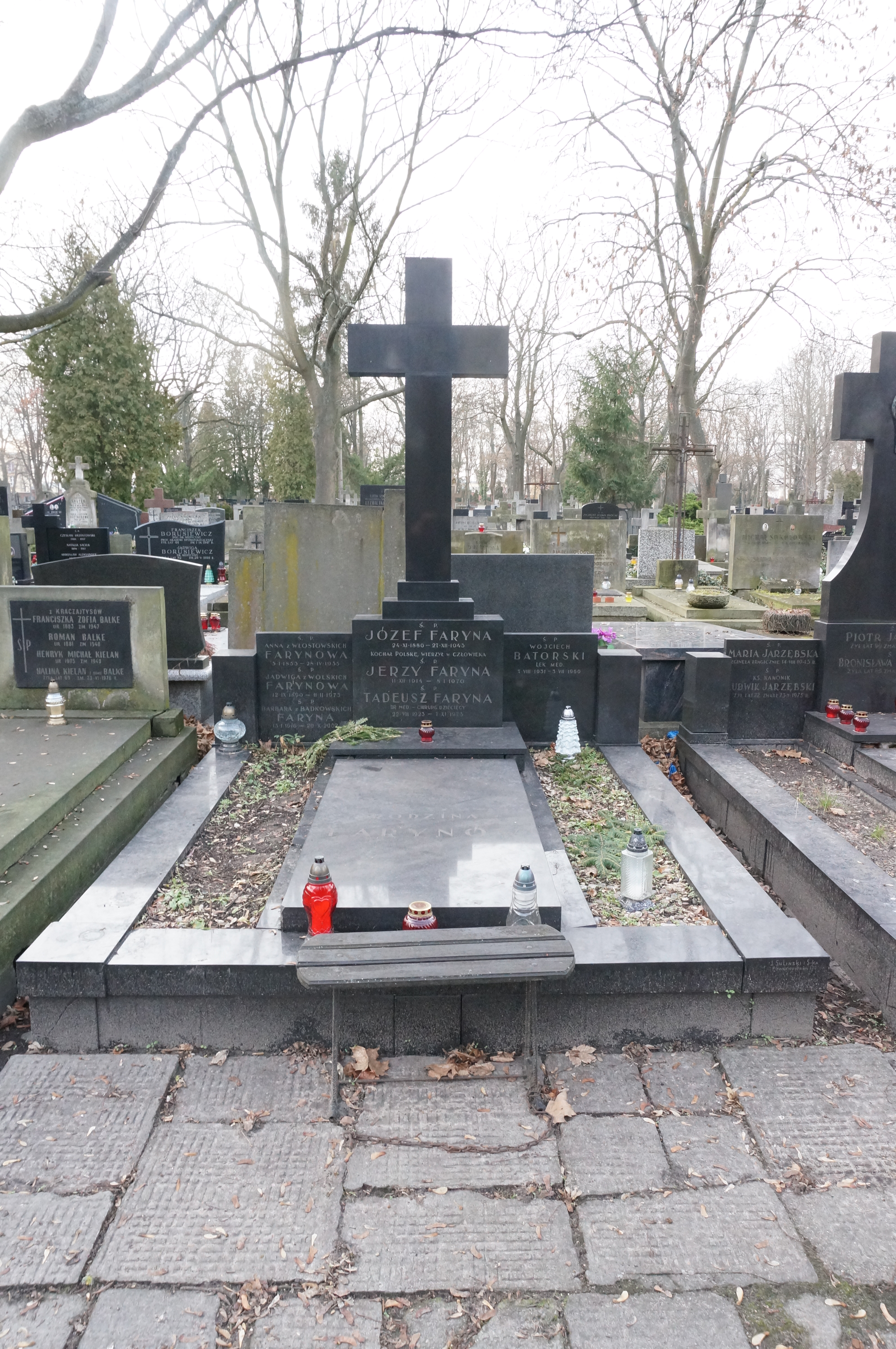 The grave of Tadeusz Faryna at the Powązki Cemetery (section 240, row 1, grave 16, 17)